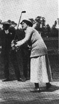 Mabel Harrison swinging a golf club, from a 1918 magazine. She is a white woman wearing a long skirt and a long sweater; a man is standing in the background, wearing a cap and a suit.